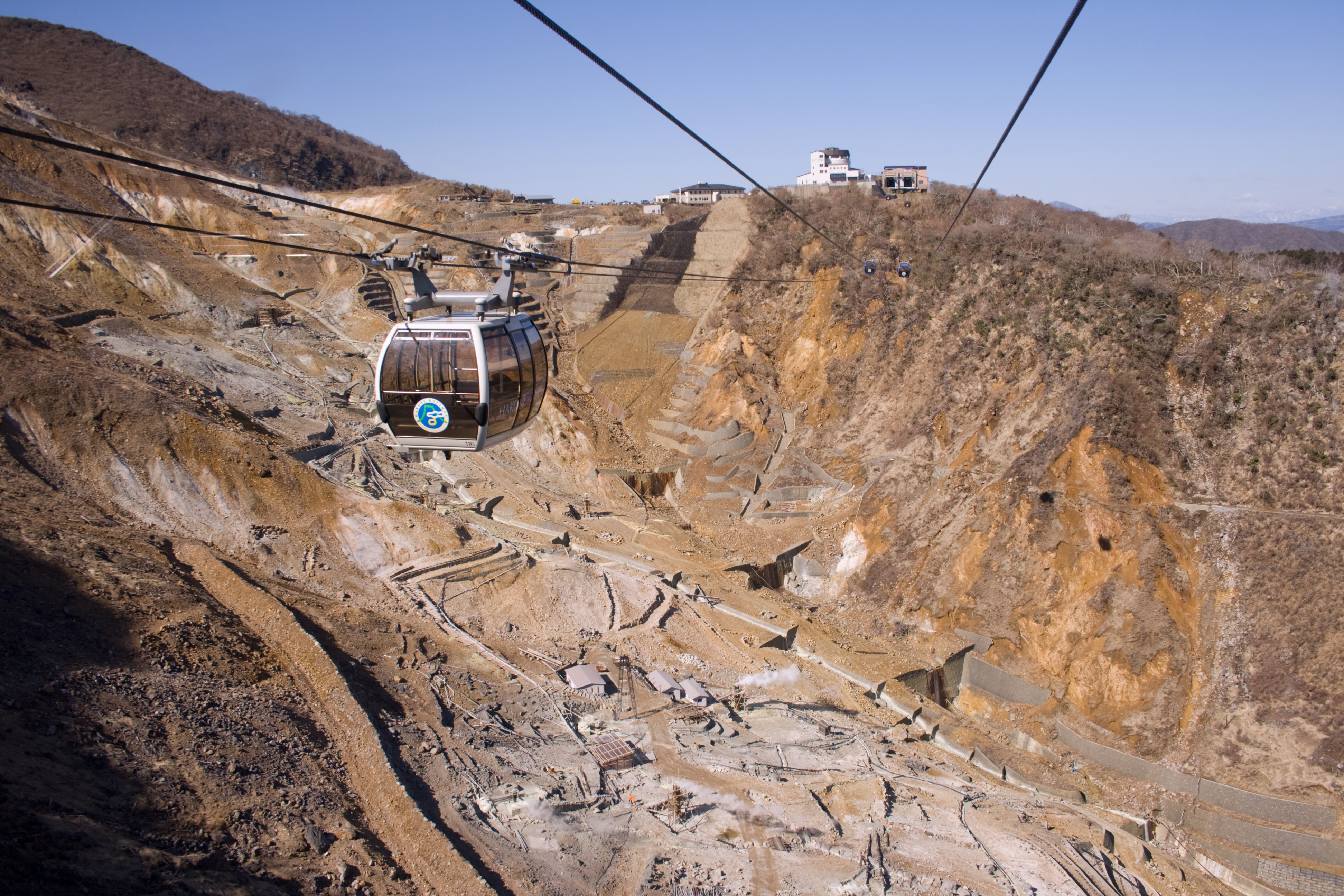 Hakone Ropeway